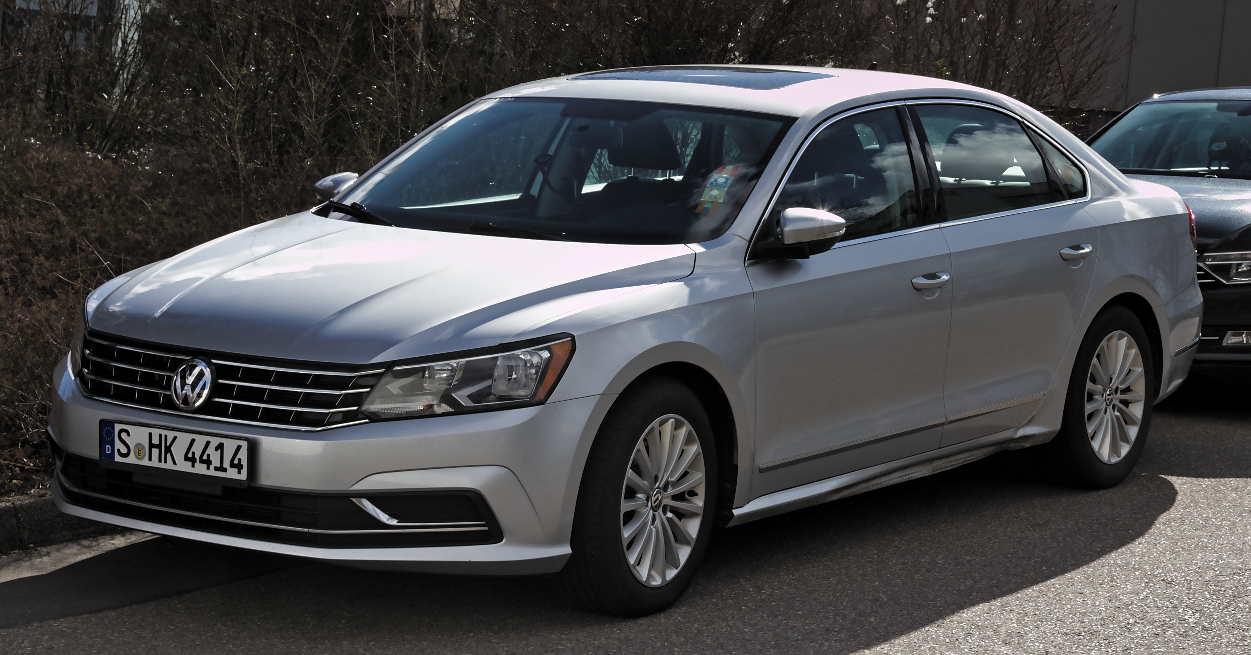 Volkswagen_Passat_NMS_I in Stuttgart-Vaihingen